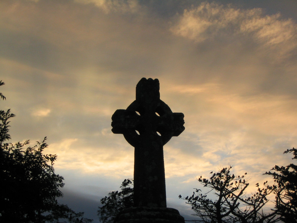 Celtic cross at dawn in Knock, Ireland (at the bus stop to Westport) 28/07/2005